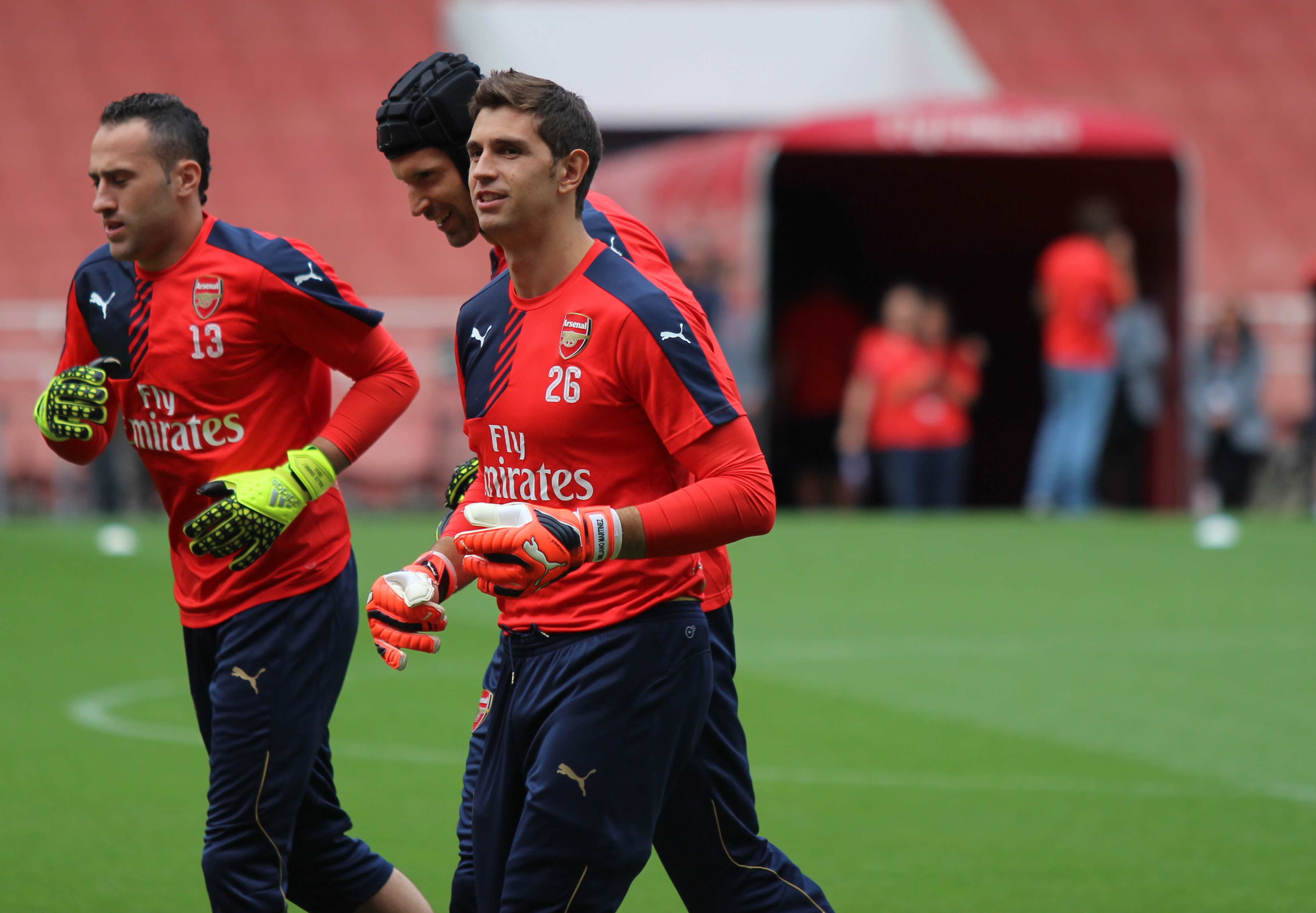 Arsenal goalkeepers David Ospina, Petr Cech and Emiliano Martinez warm up before the annual Arsenal Members' Day.